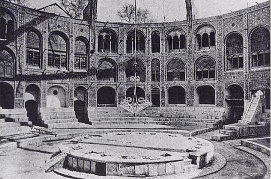 Takiyeh-e Dowlat, Tehran, Iran